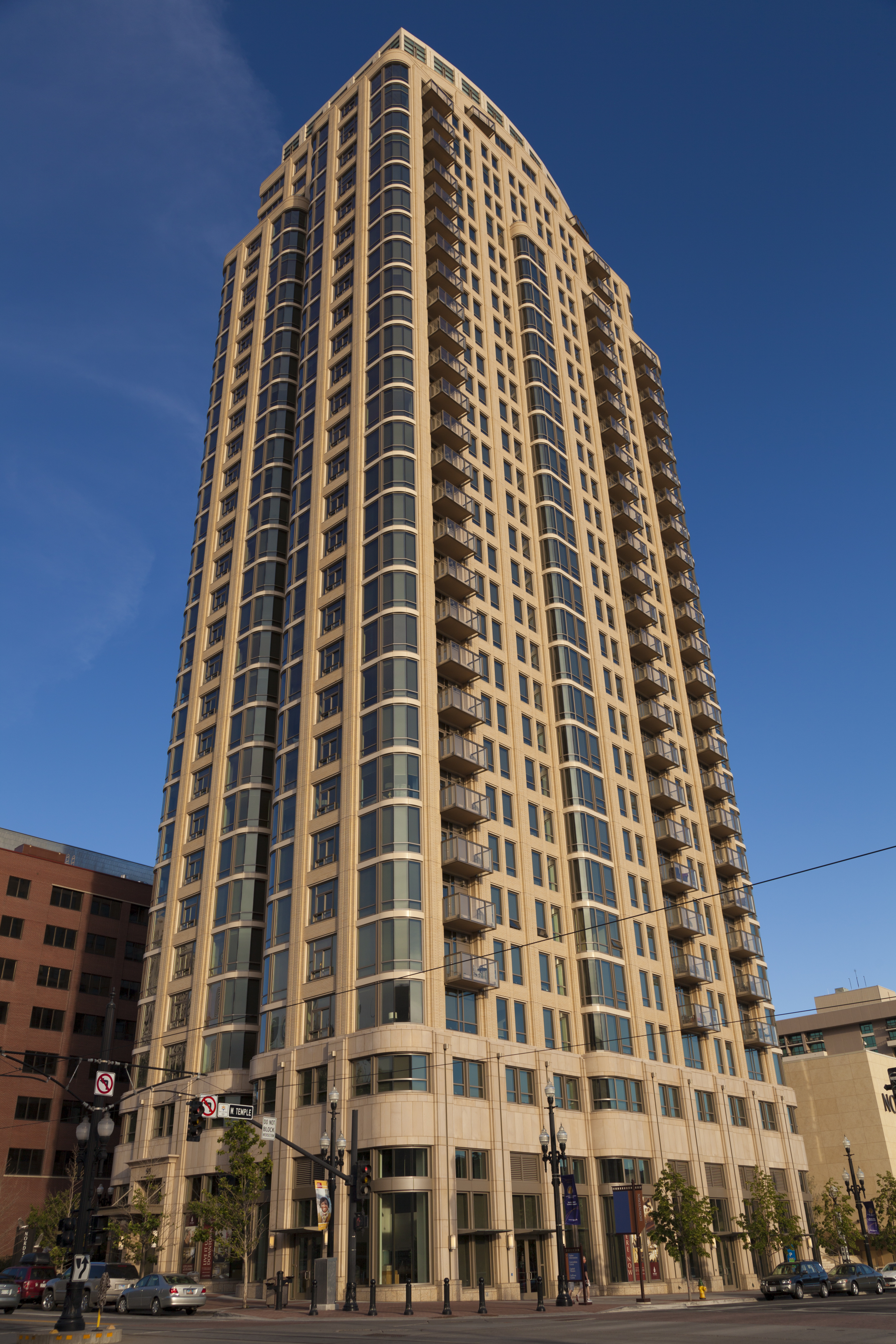 Promontory Tower at City Creek Center in Salt Lake City, Utah, USA.